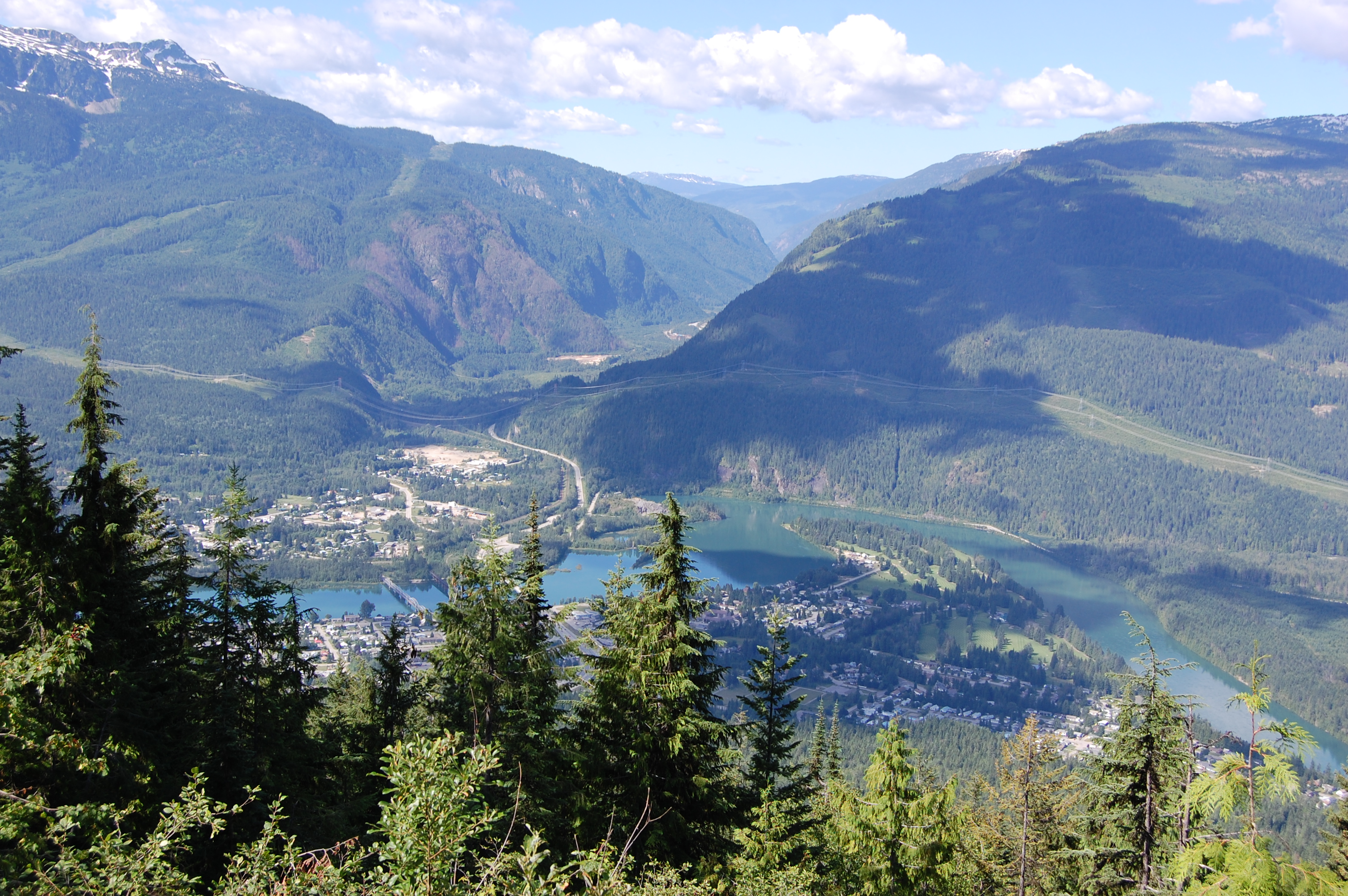 Revelstoke British Columbia from Mount Revelstoke.